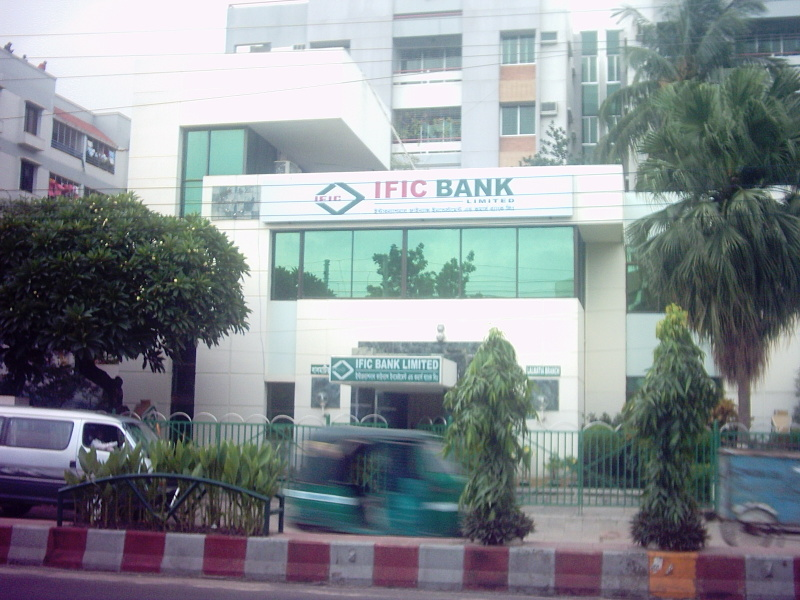 IFIC Bank in Dhaka. Taken from roadside.